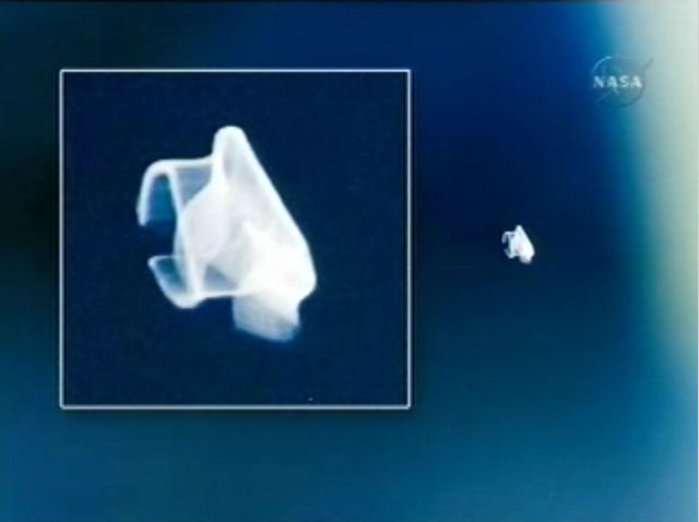 This picture of unidentified possible small debris was recorded with a digital still camera by astronaut Daniel Burbank onboard the Space Shuttle Atlantis around 11 a.m. (CDT) today. Engineers do not believe this to be the same object seen in video taken by shuttle TV cameras earlier in the day.